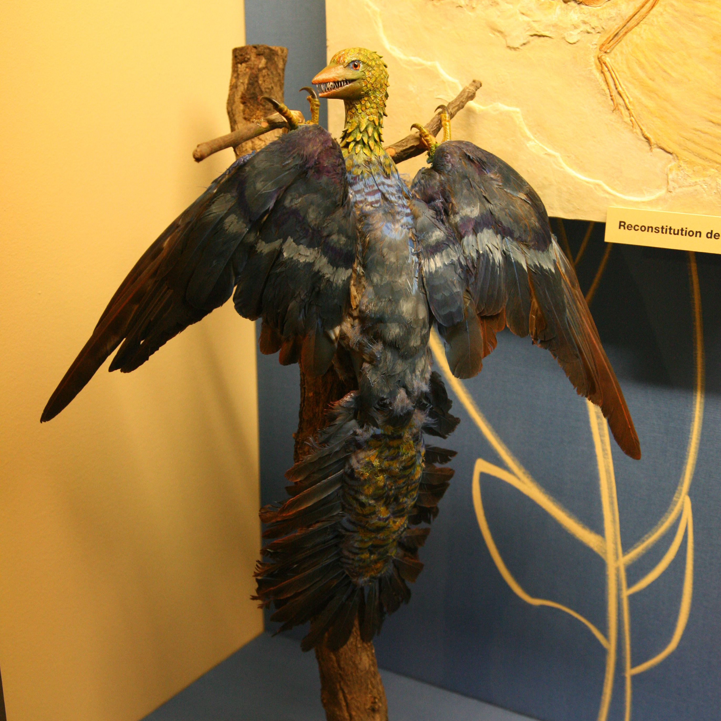 Model of Archaeopteryx on display at Geneva natural history museum